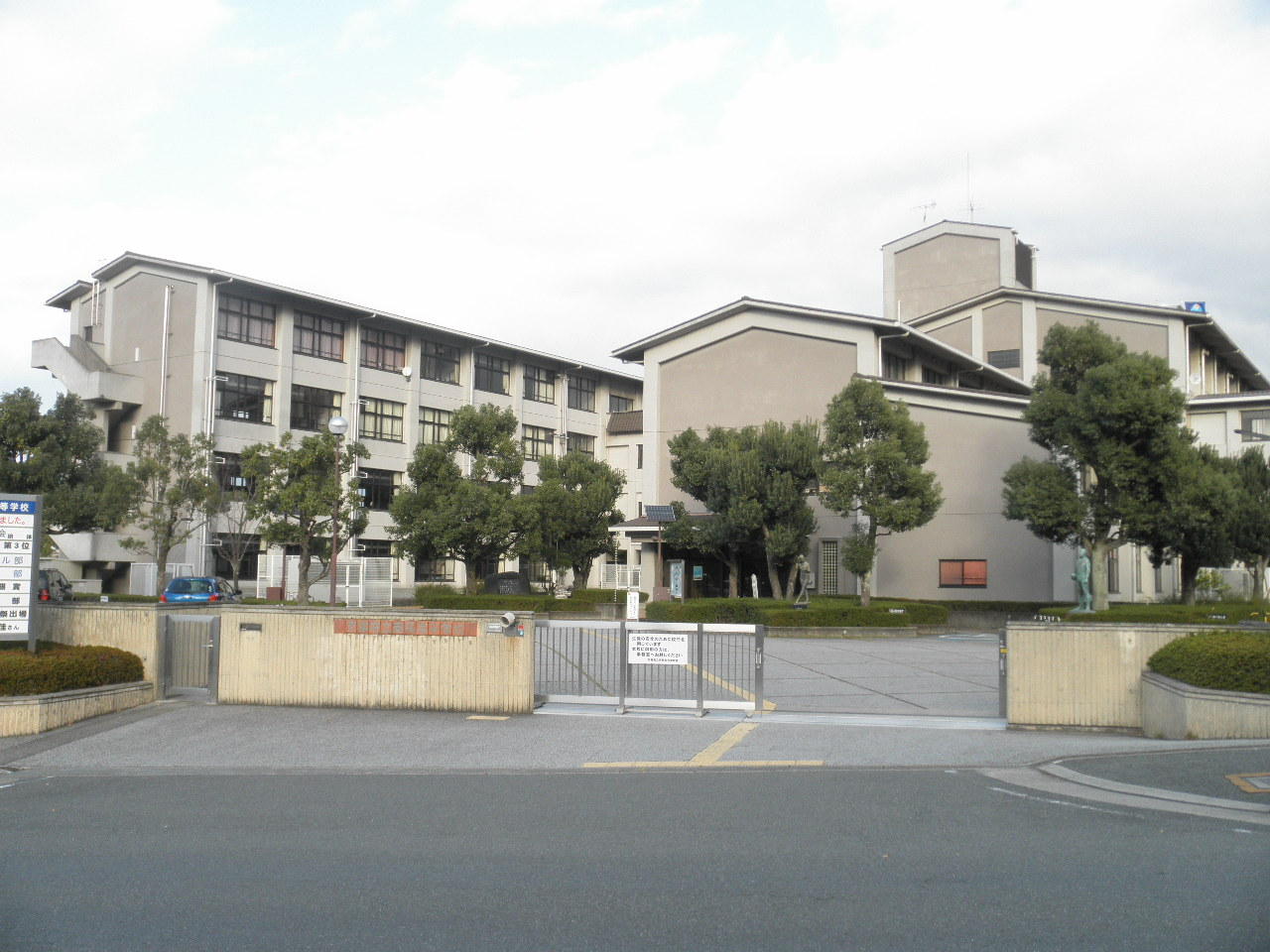 Nanyo High School